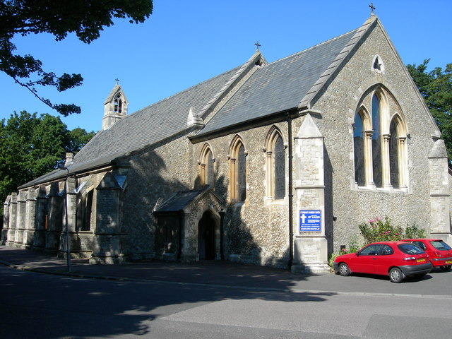 The Garrison Church of Saint Barbara, Maxwell Road, Brompton (1) This church has strong associations with the nearby Army Barracks and the Royal School of Military Engineering. Here is their website